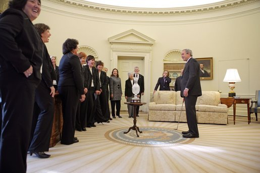 President George W. Bush hosts a visit to the Oval Office by the 2005 U.S. Solheim Cup Team Friday, Jan. 13, 2006. The Solheim Cup is a biennial competition between the top United States and Europe's women golfers.